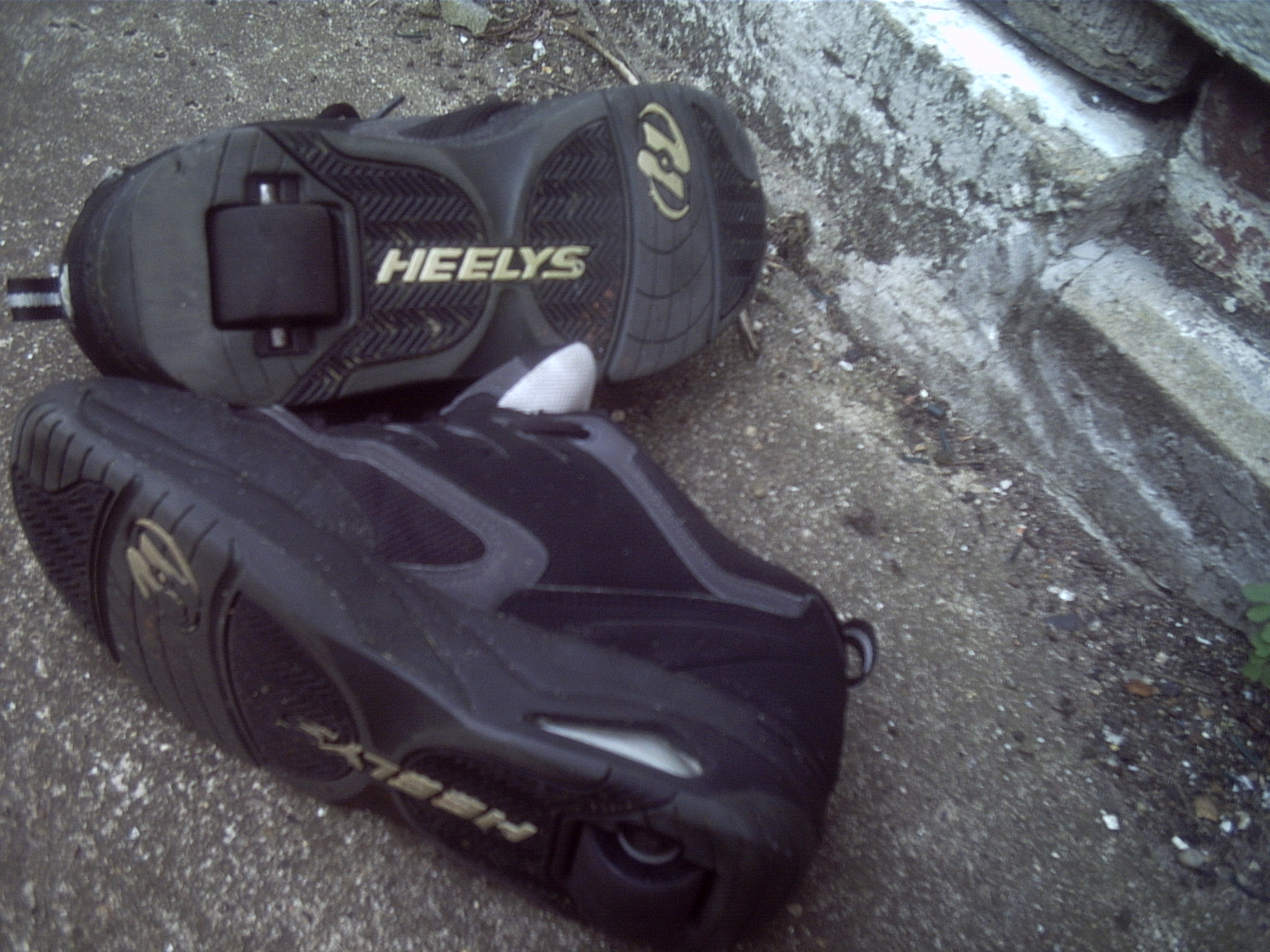 A pair of used Heelys.